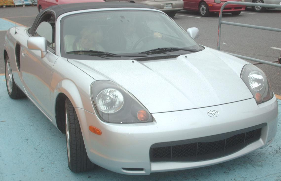 2002 Toyota MR2 Spyder photographed in Montreal, Quebec, Canada.